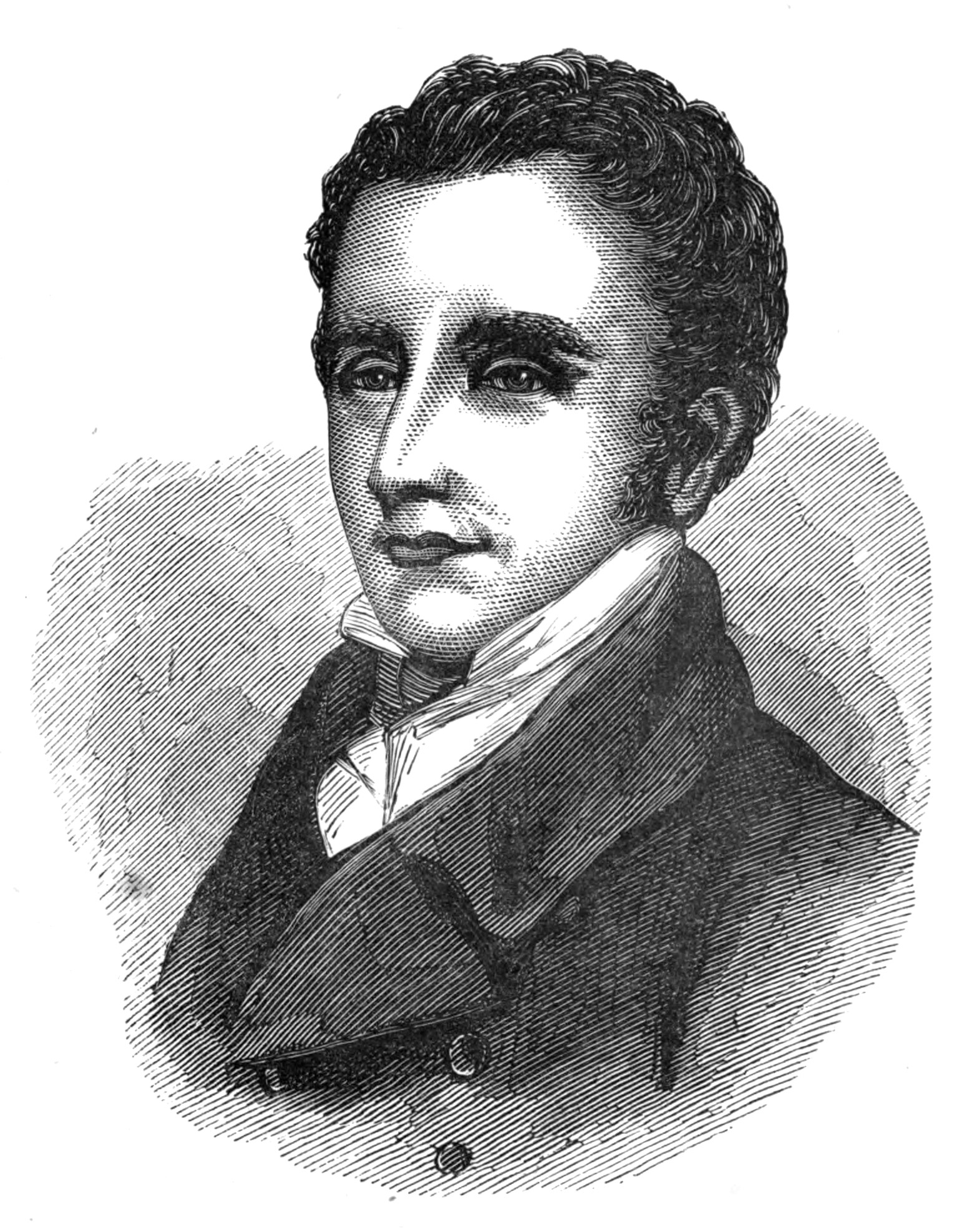 A portrait of Thomas Longman.